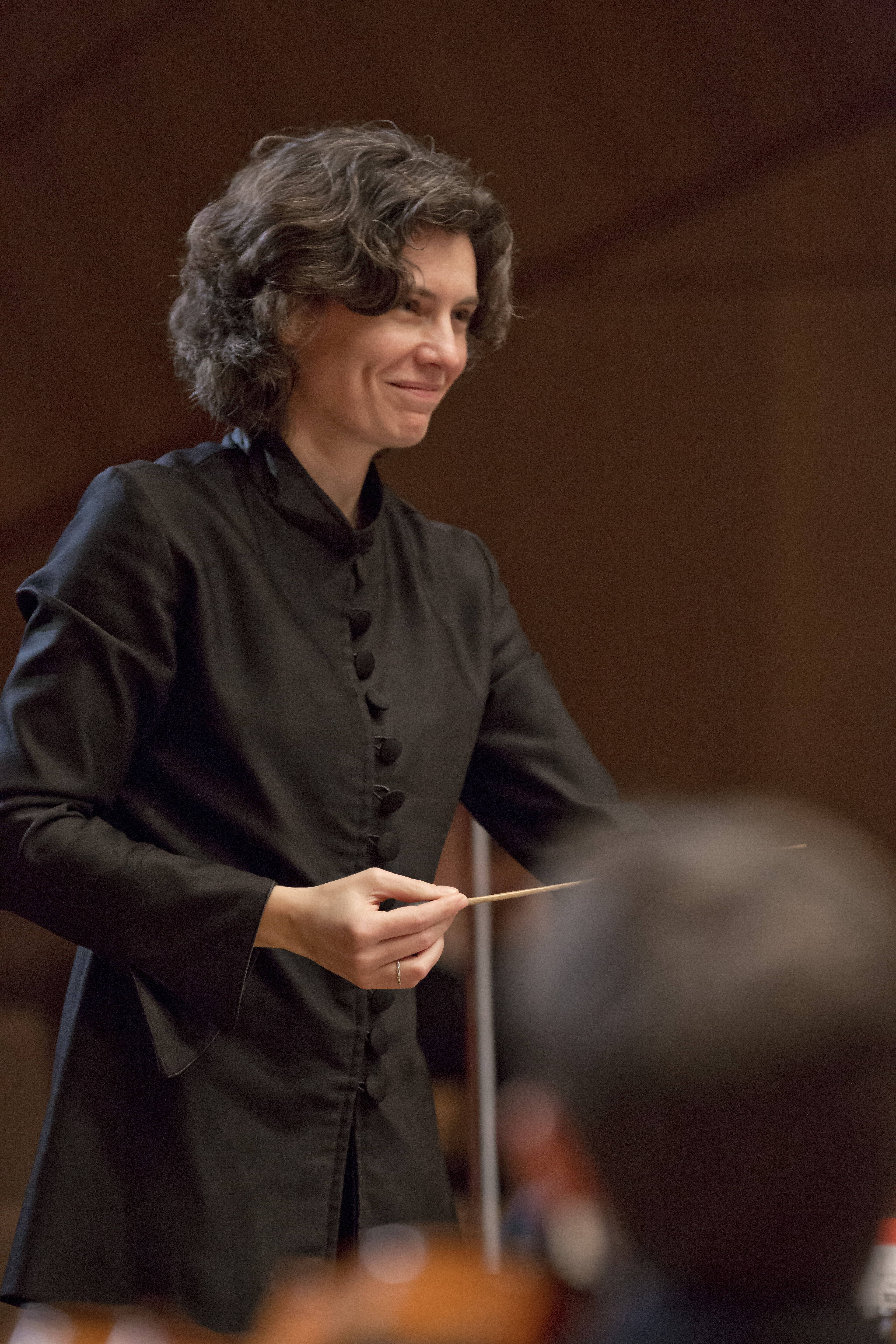 Laëtitia Trouvé, musical director